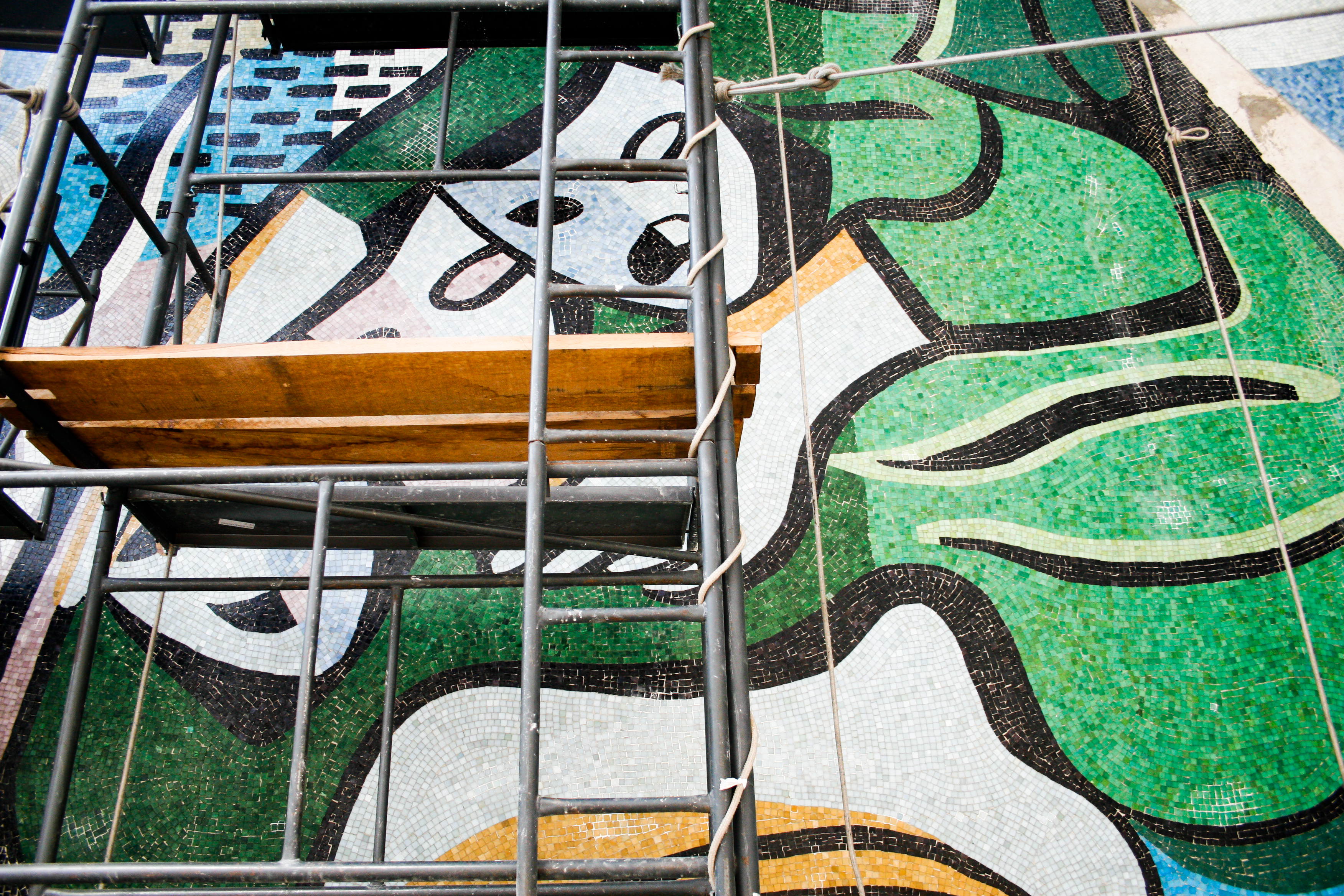 Obras de restauração do painel de Emiliano Di Cavalcanti do Teatro Cultura Artística, em São Paulo (SP), Brasil